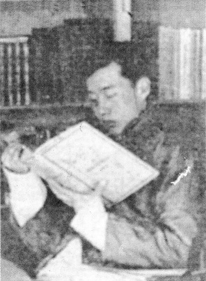 Chinese scholar Luo Fuchang 羅福萇 (1895-1921), third son of Luo Zhenyu 羅振玉 (1866-1940).